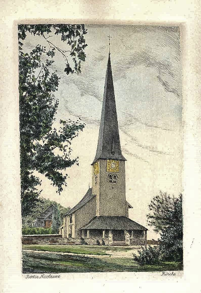 Famous Church at Berlin Nikolassee from 1909 - 1910